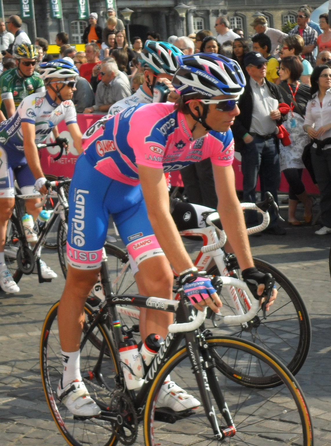 Daniele Pietropolli on Liège-Bastogne-Liège 2011 start line